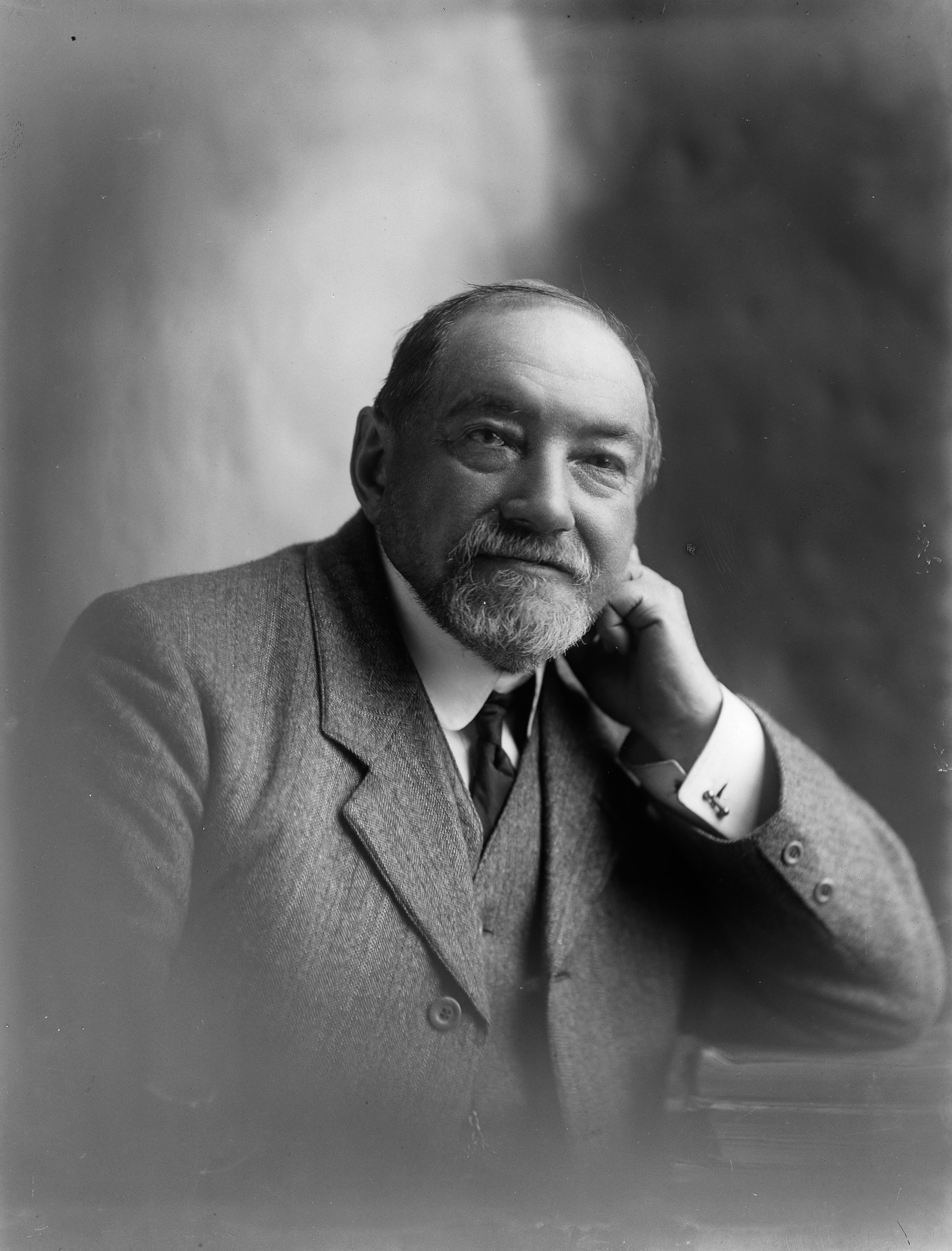 Alexander Wilson Hogg, circa 1901, photographed by Herman John Schmidt.